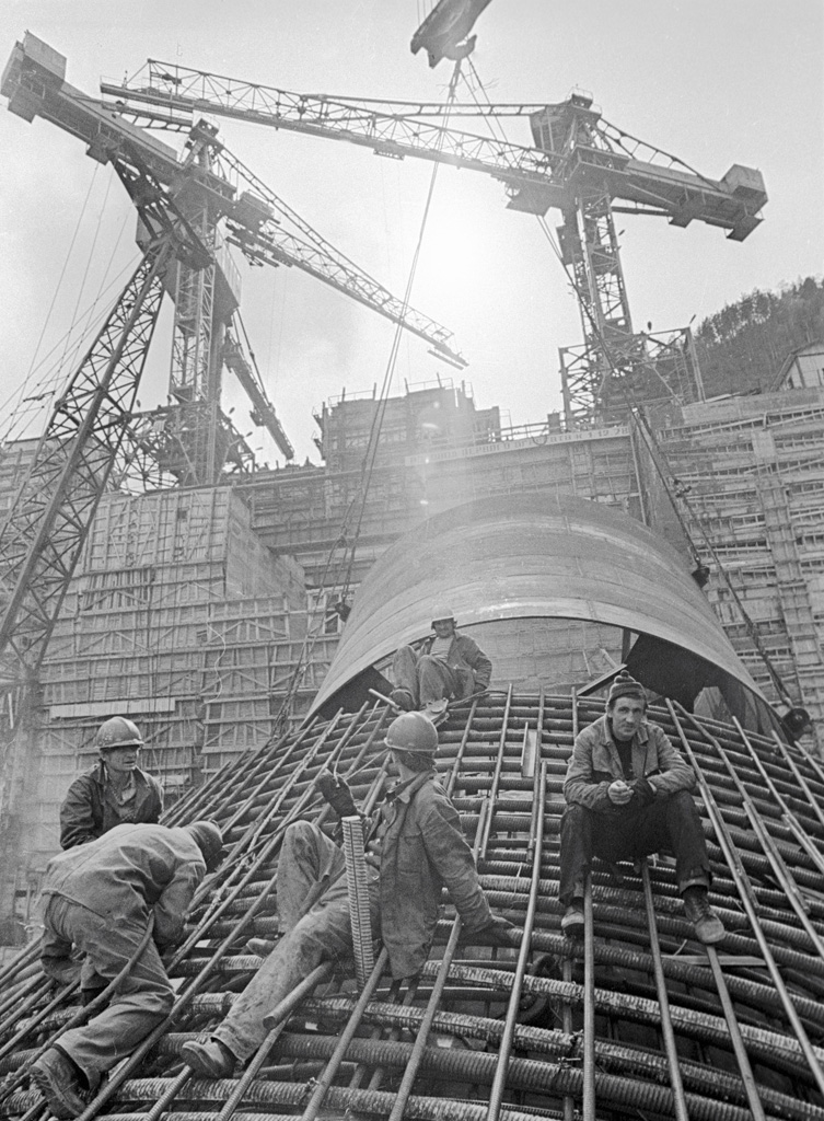 “Construction of Sayano–Shushenskaya HPP”. Workers of Sayano-Shushenskaya HPP at the construction of a sluice pipe for turbo generator unit.